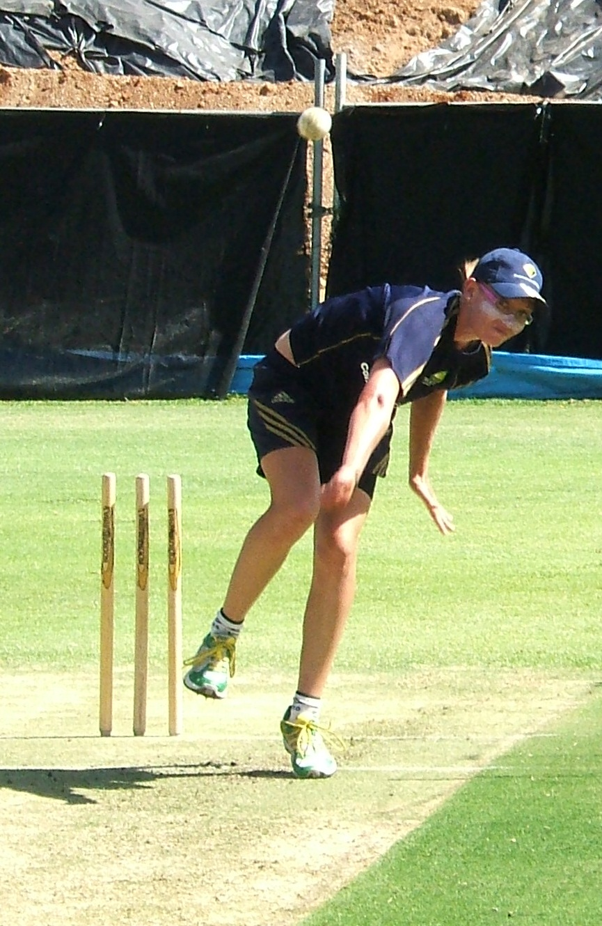 Named person engaging in named action at Adelaide Oval nets/training ground